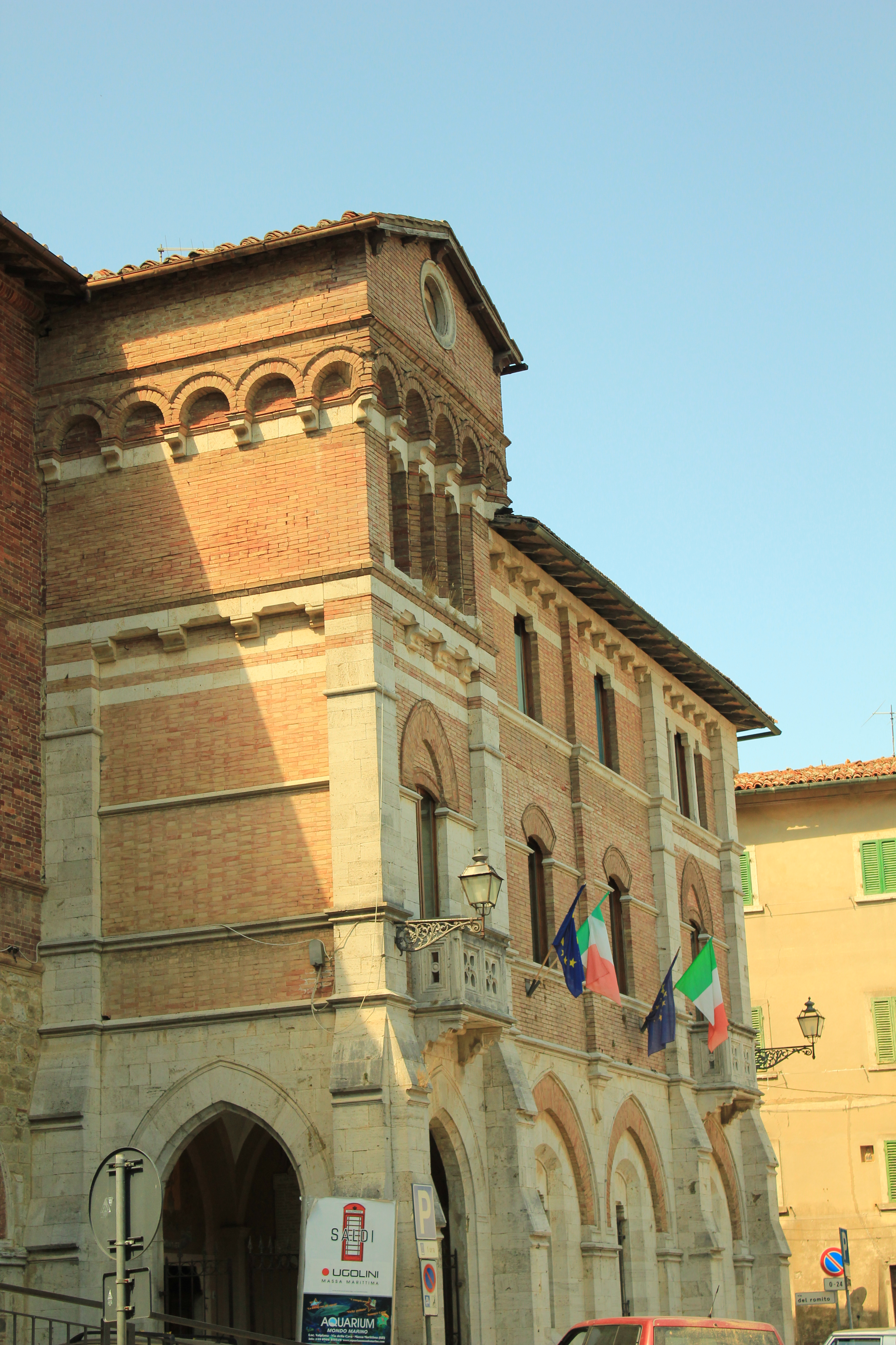 Town Hall of Montieri, Grosseto.